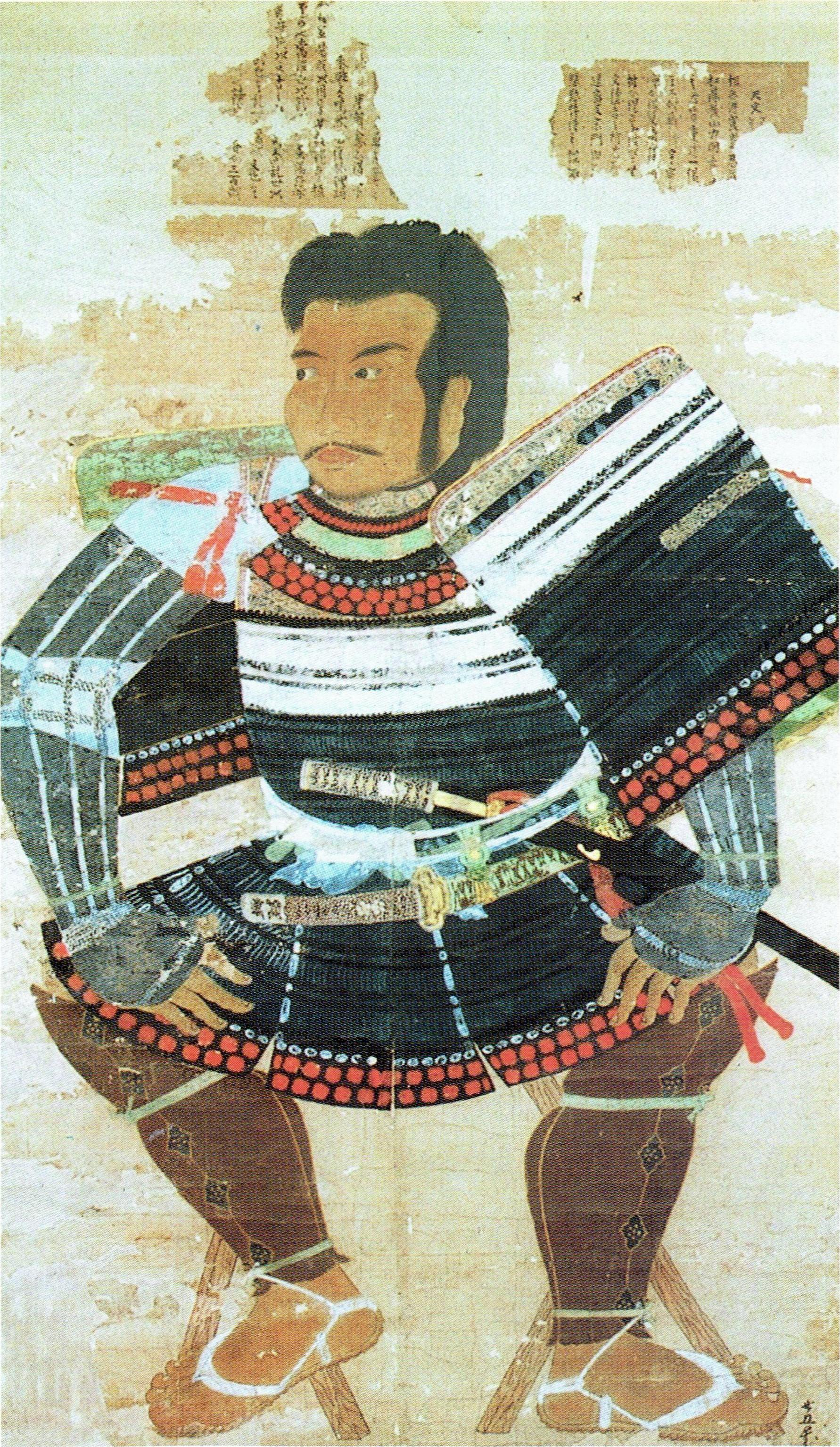 Portrait of Saitō Masayoshi, owned by Jō-on-ji Temple in Kani, Gifu, Japan